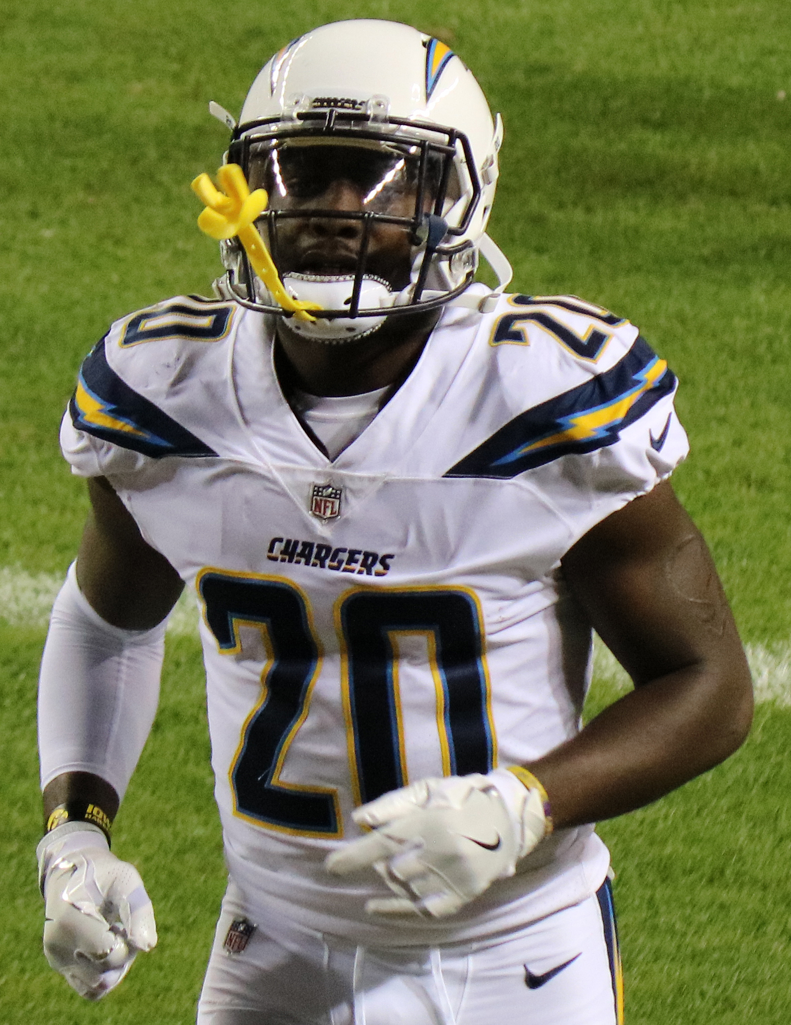 Desmond King, a player on the National Football League.